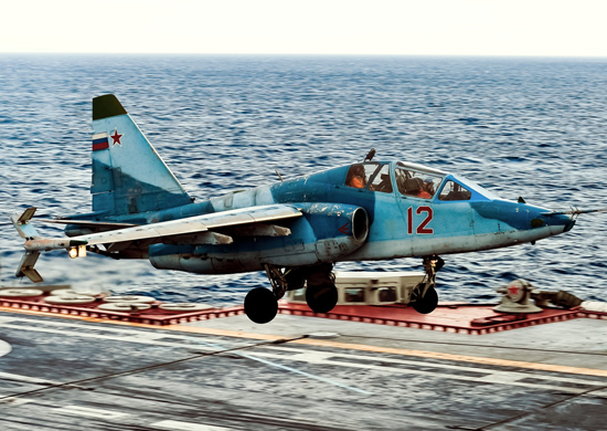 Sukhoi Su-25UTG on board the Admiral Kuznetsov